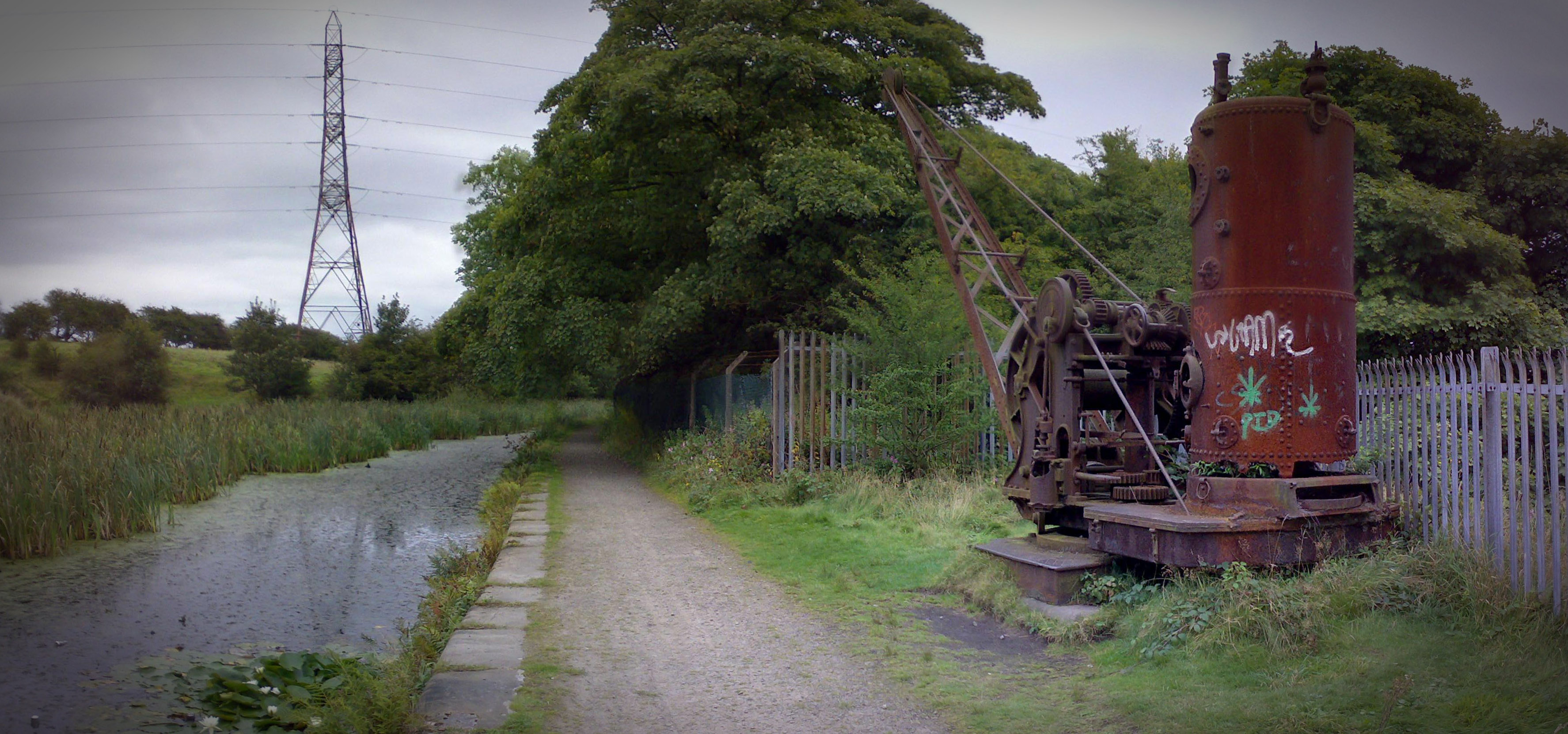 The Steam Crane at Mount Sion on the canal, looking towards Radcliffe. The crane collected loads from the boats in the canal, and lowered them down beyond where the fence now is. There is a significant drop in height to the yard below.